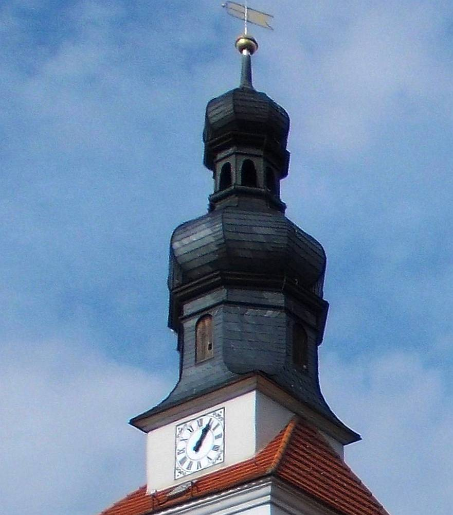 Wahrenbrück church (Uebigau-Wahrenbrück, Elbe-Elster district, Brandenburg)